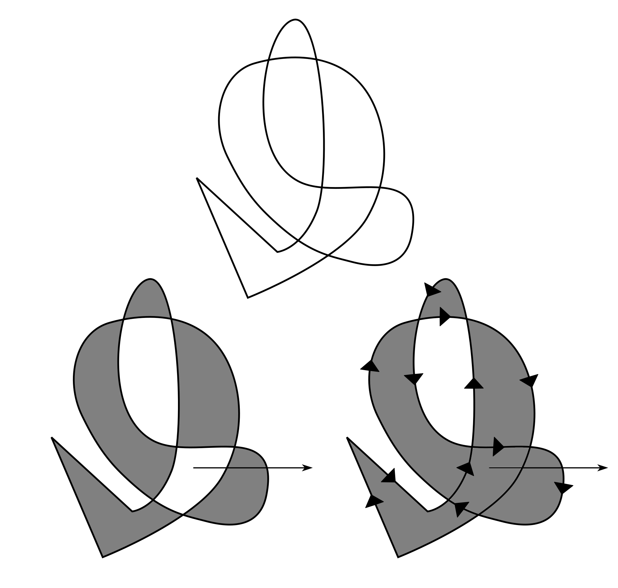 Diagram showing how a curve (top) is filled according to two rules: the even-odd rule (left), and the non-zero winding rule (right). This is relevant to two-dimensional computer graphics.